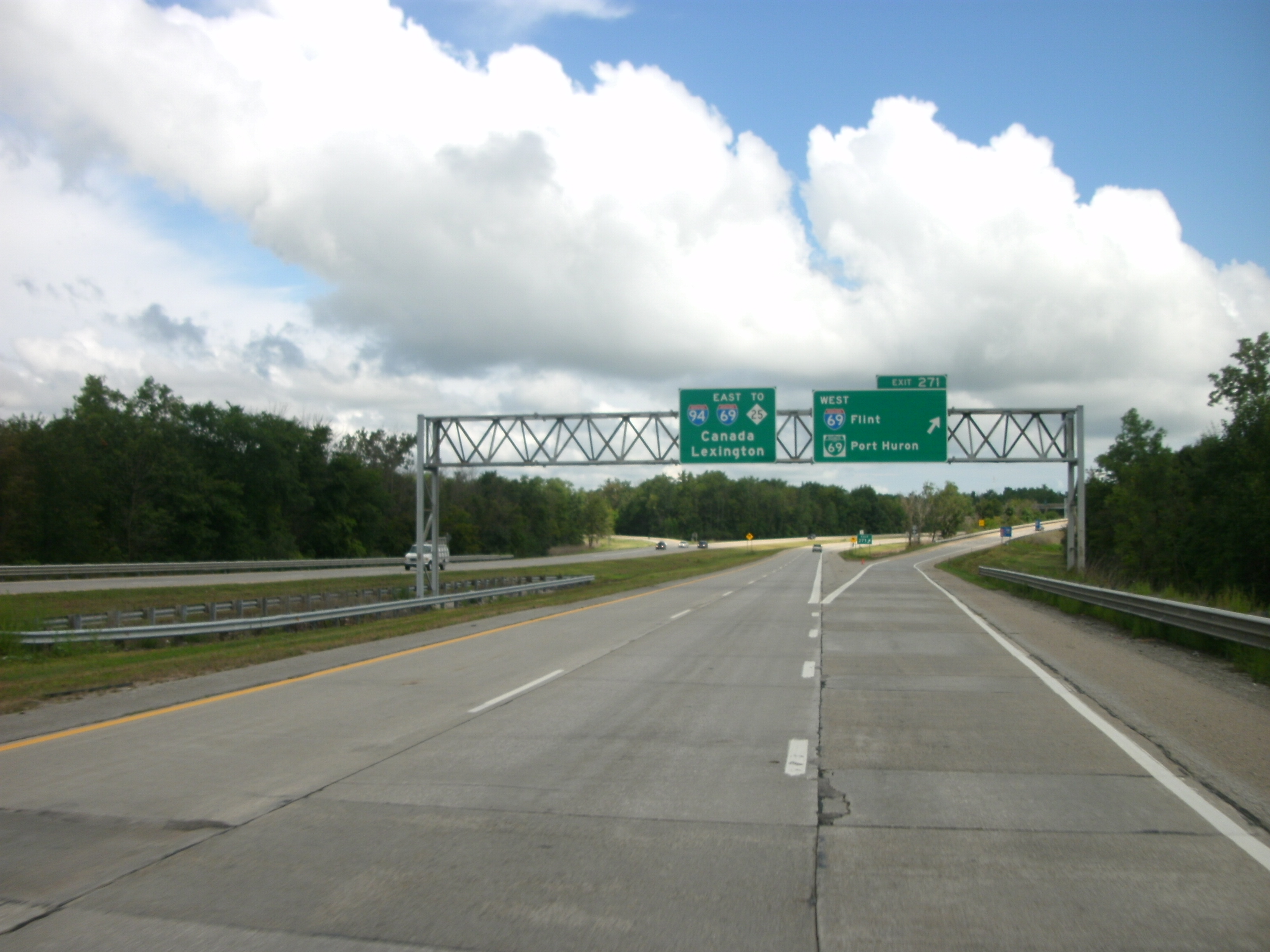 Interstate 94 eastbound at Exit 271 in the city of Port Huron, Michigan, the junction with Interstate 69.